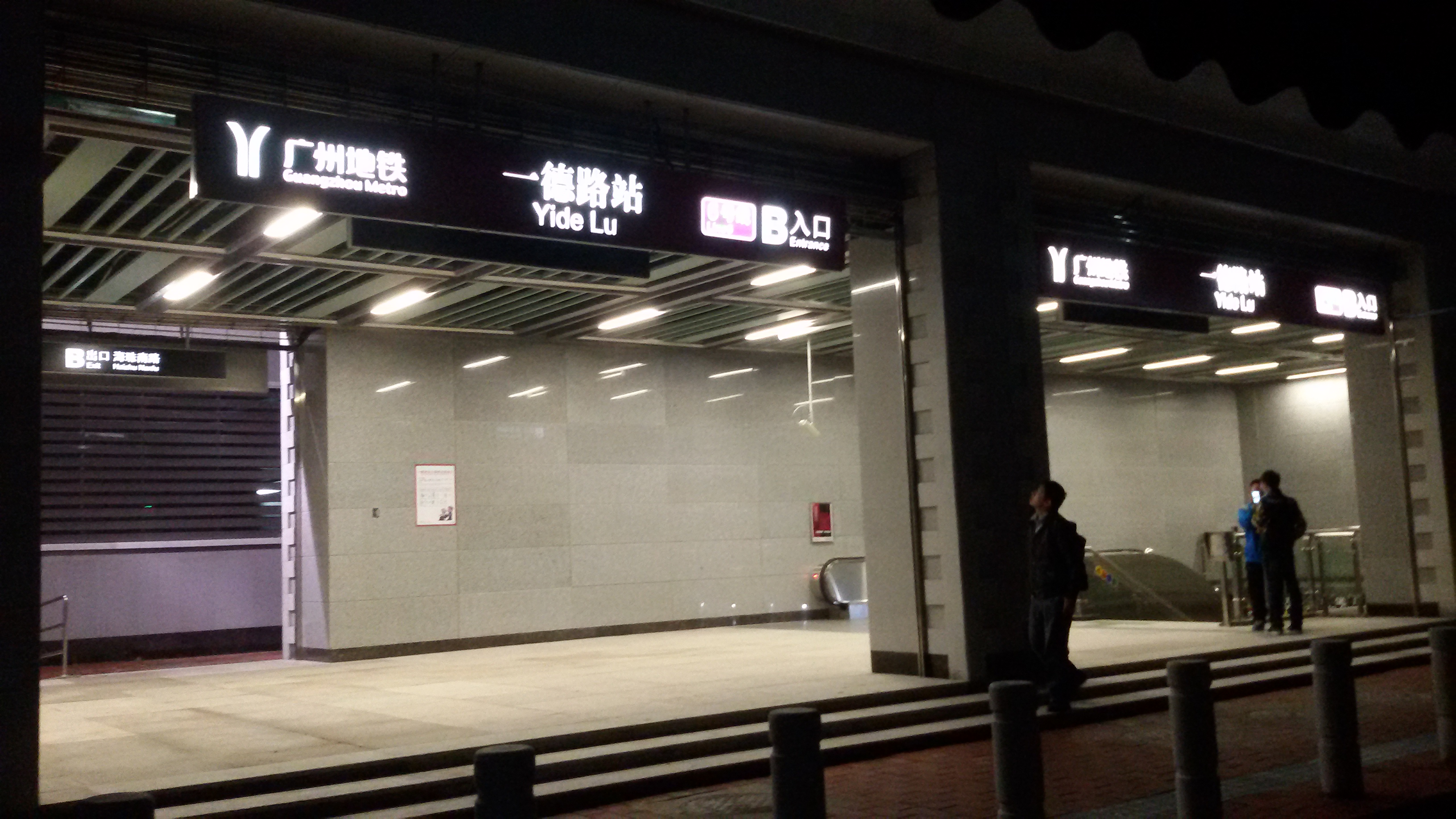 Exit B for Yide Lu Station in Guangzhou Metro.